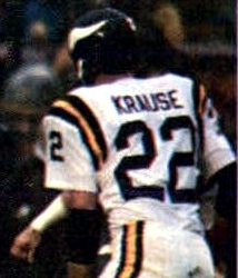 Minnesota Vikings safety Paul Krause in a defensive play against the Los Angeles Rams in the in the 1977 NFC Divisional Playoff Game on December 26, 1977.